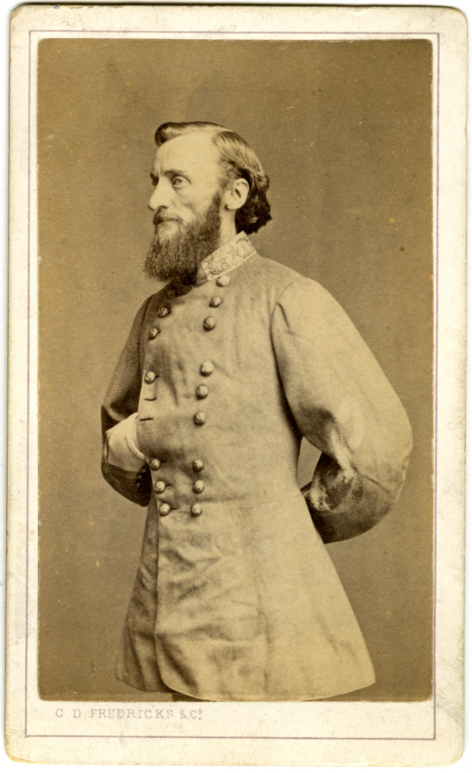 Collection: McCardle (Mrs. W. H.) Photograph Collection Call number: PI/1985.0017 System ID: 104199. Link to the catalog General John S. Marmaduke, CSA. Portrait carte de visite. Photographer: Charles D. Fredricks Please see our profile page for information on ordering. Scanned as TIFF in 2010/10/01 by MDAH. Credit: Courtesy of the Mississippi Department of Archives and History